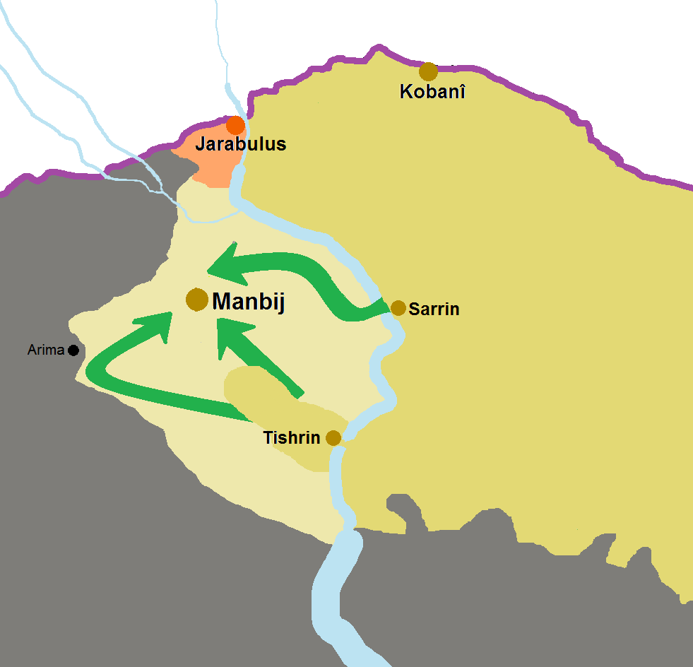 Map of the Manbij offensive showing SDF territorial gains against IS.